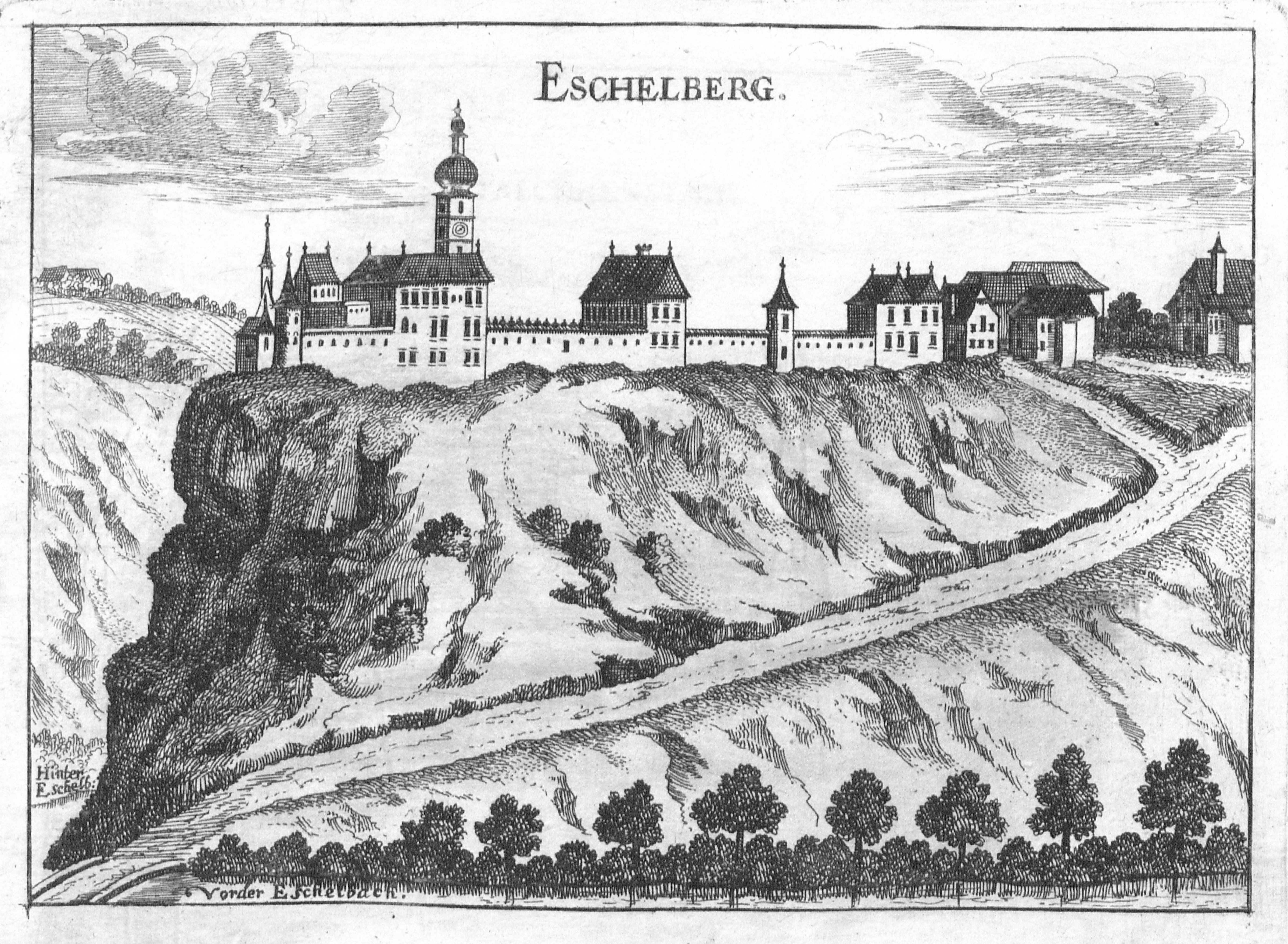 Engraving, view of Eschelberg castle, Upper Austria, drawing from M. Vischer 1674